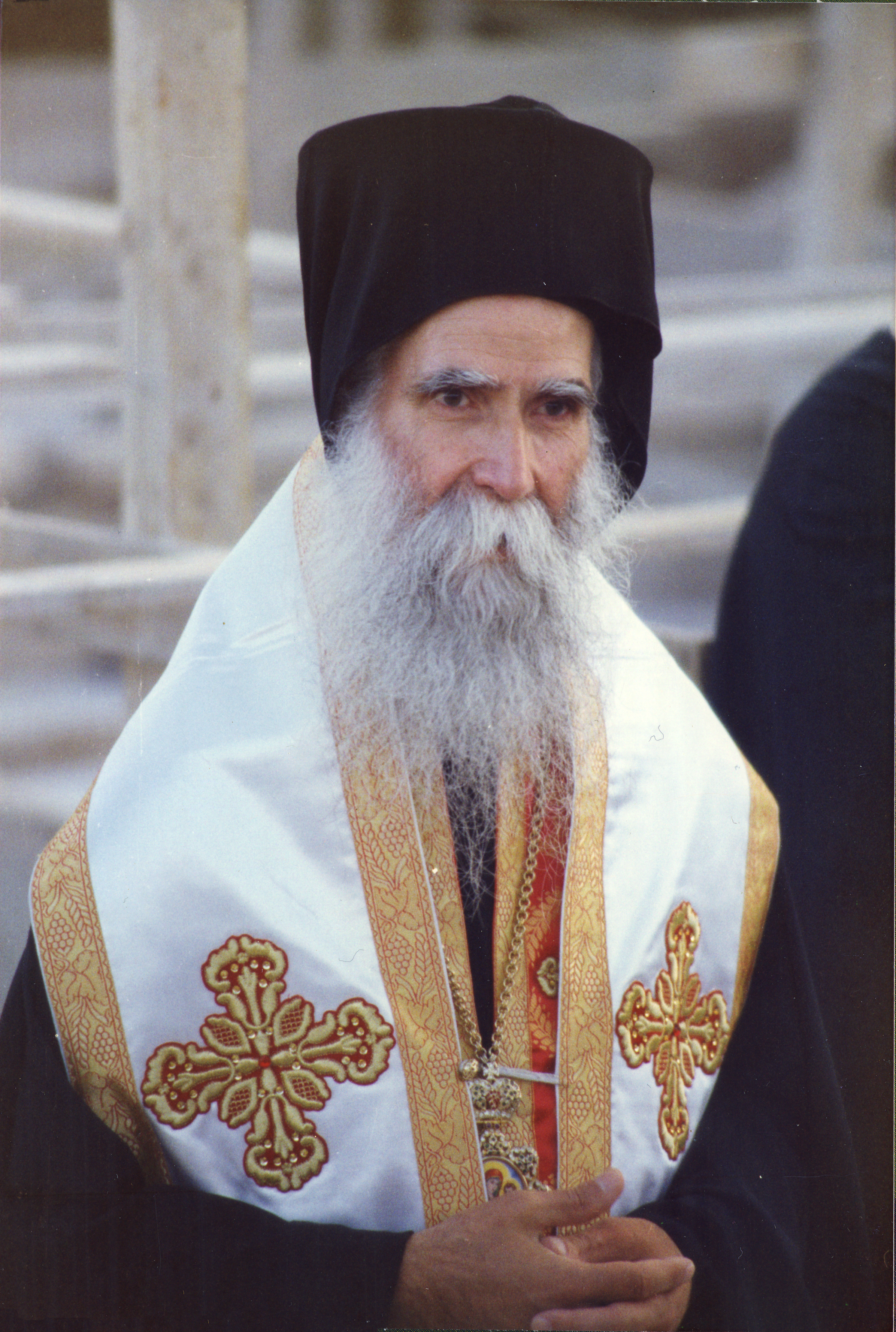 Bishop Meletios Kalamaras in 1989 at Flamboura, near Preveza.